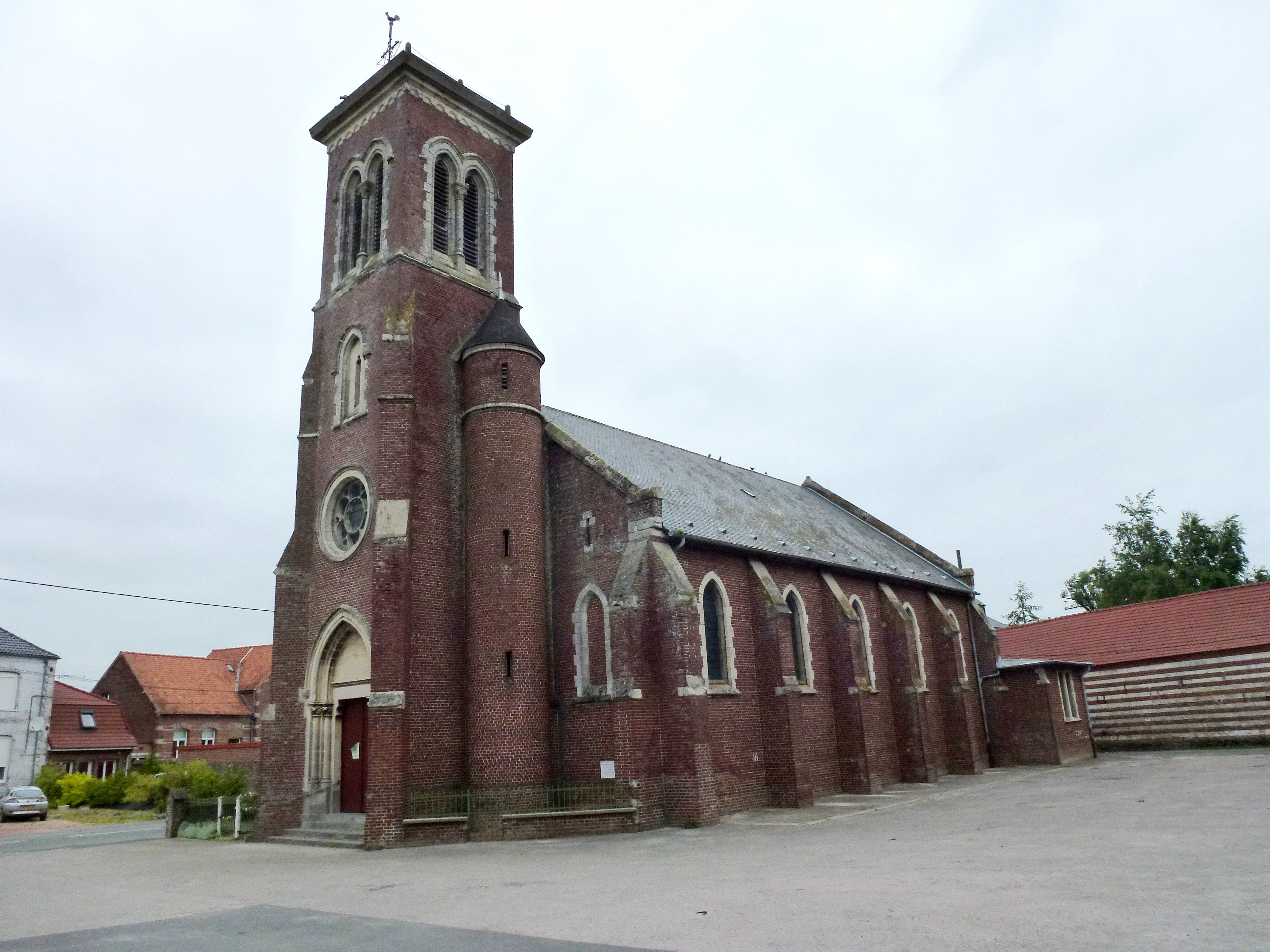 Witternesse (Pas-de-Calais) église